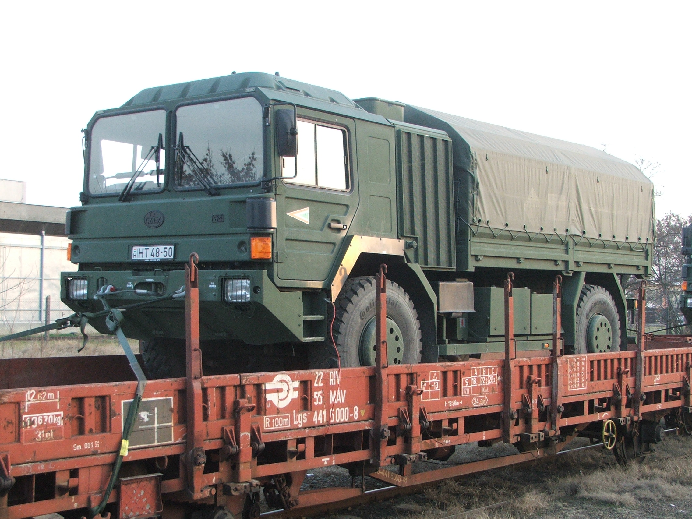 Rába H-14 military truck at the Szentes railway station, Hungary